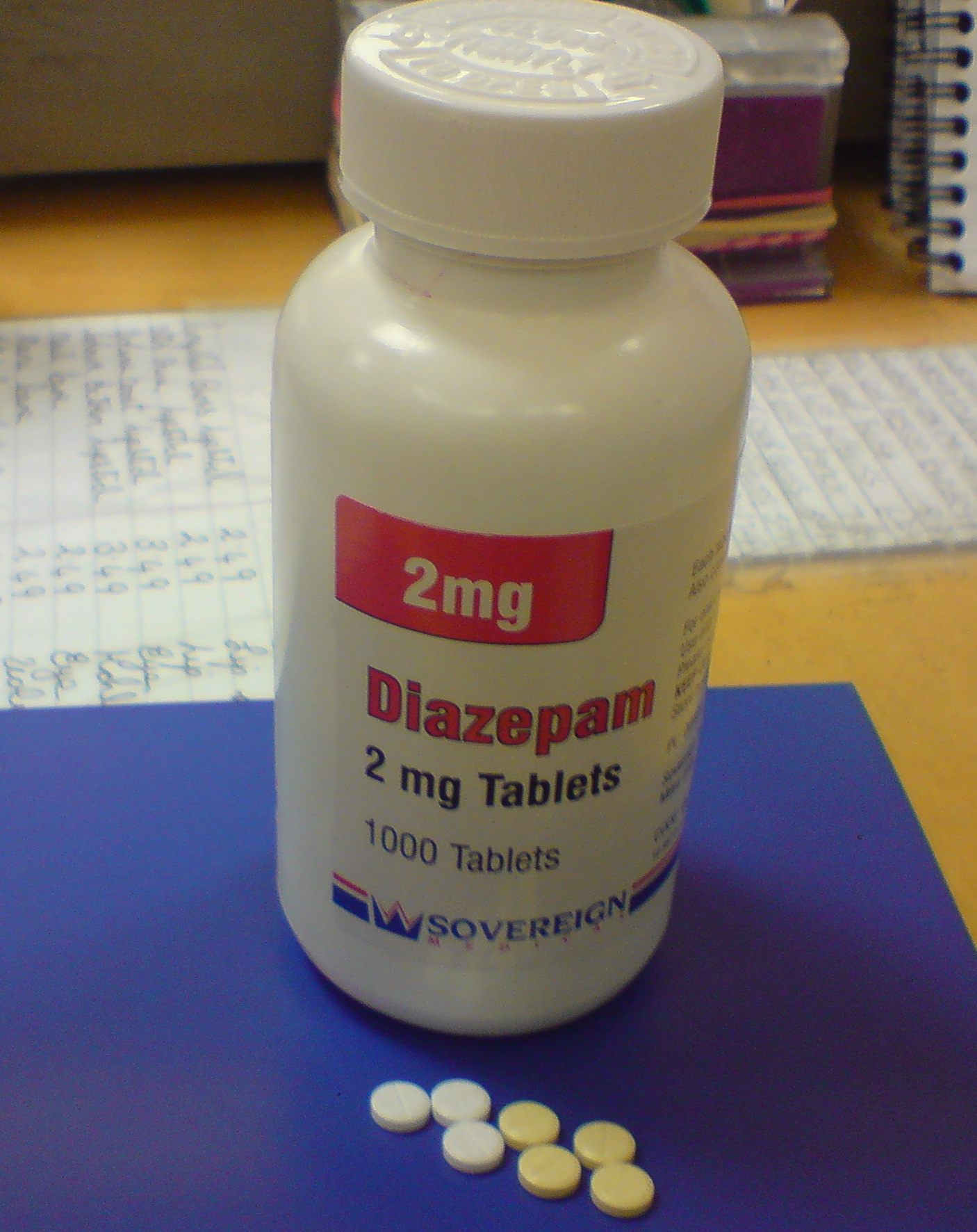 A picture of diazepam tablets, which are commonly used in the treatment of benzodiazepine withdrawal due to their long half life and availability in low potency white 2 mg tablets and availability in liquid form. Diazepam allows for small dose reductions and a smooth withdrawal due to its long half life. The yellow tablets are 5 mg sized tablets.